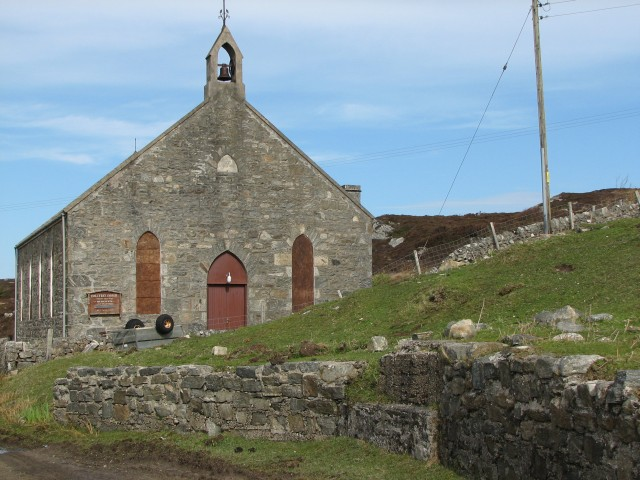 Coll Free church. Free Church of Scotland, now boarded up, the Church of Scotland nearby has enjoyed more popularity in recent years, particularly with incomers. I read that in 1996 the Free Church had a congregation of only 10.